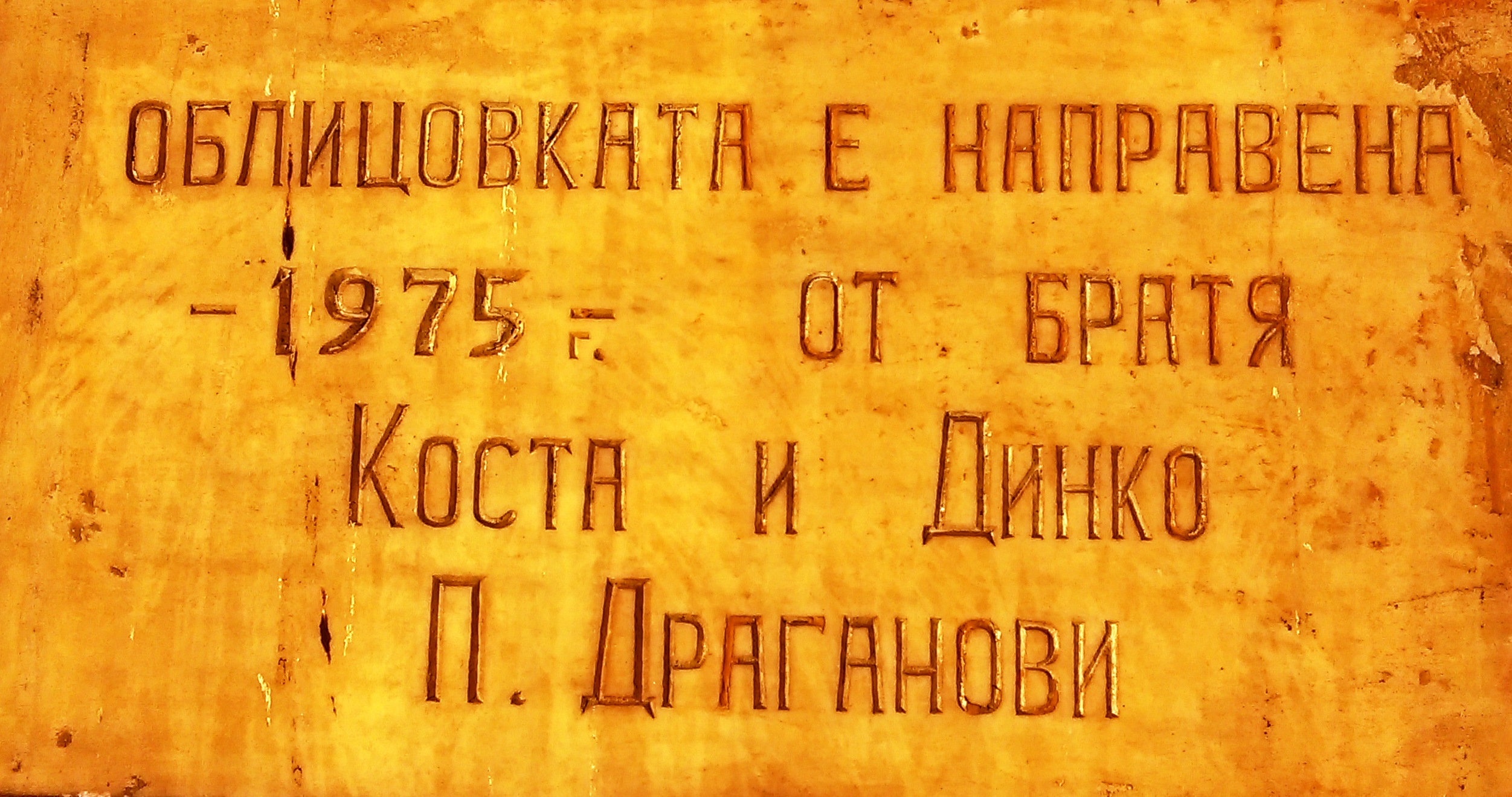 A memorial plaque to builders, that realized the new Yambol railway station facade in 1975